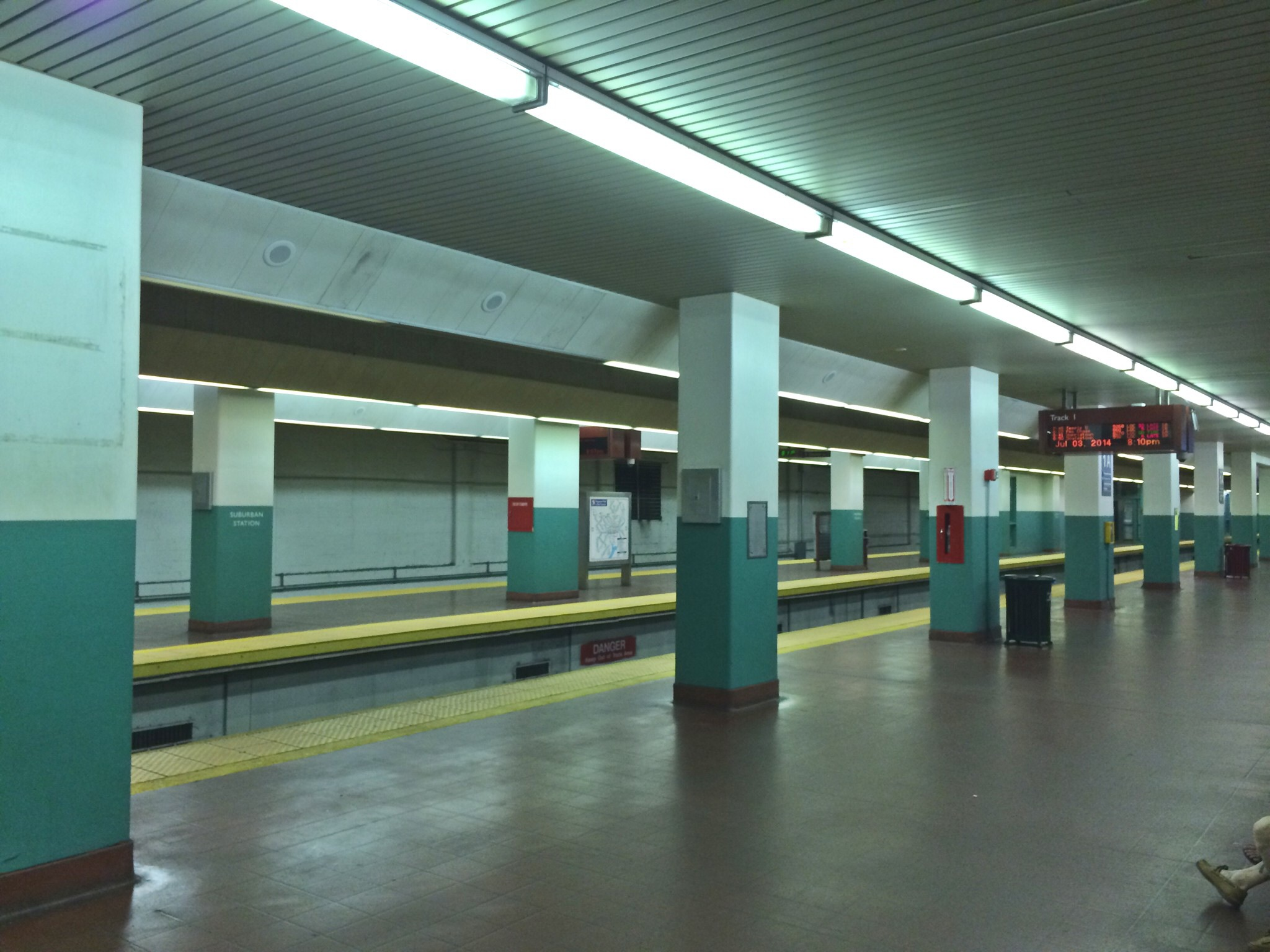 Suburban Station Regional Rail Platforms